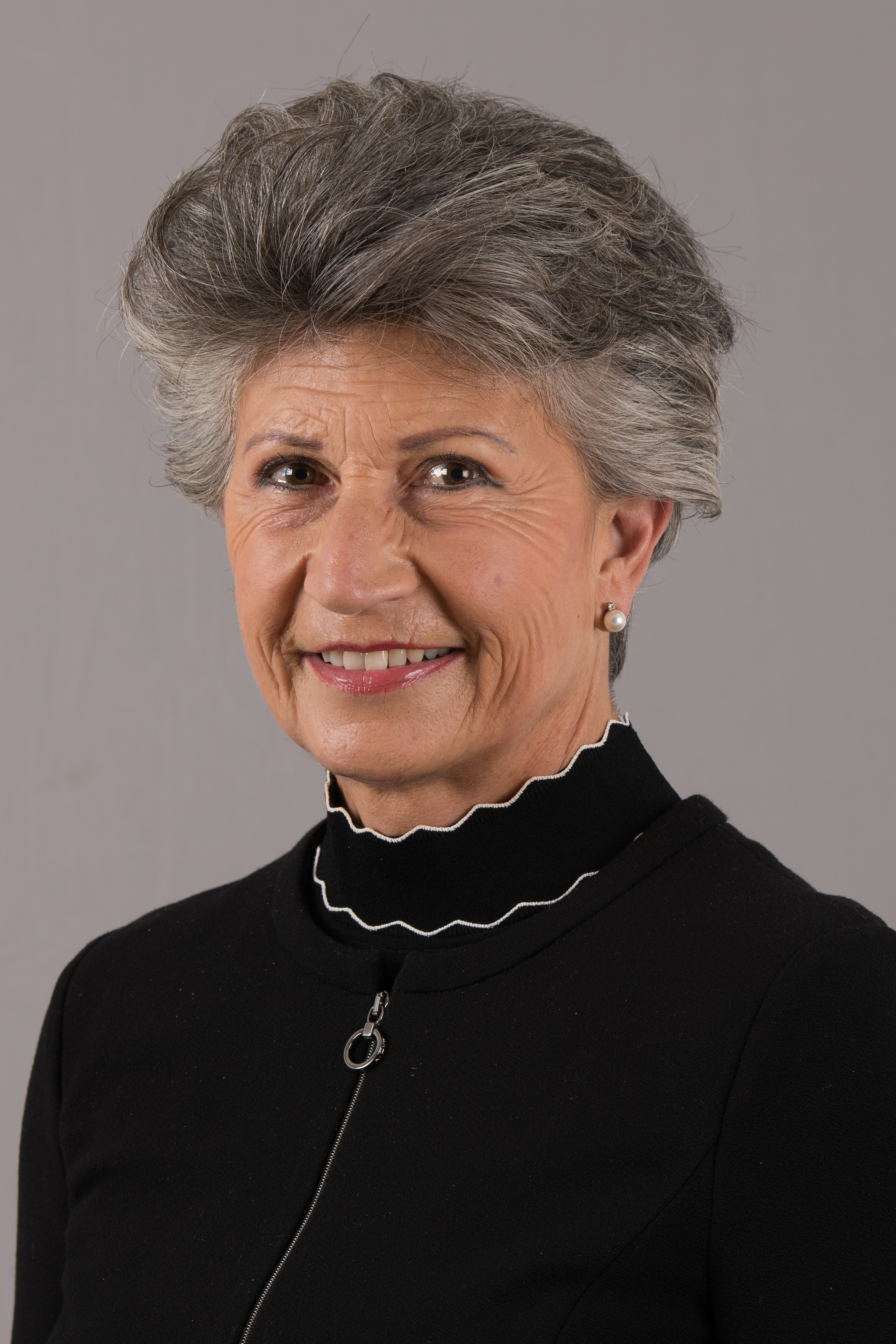 13/12/17, Bregenz/Vorarlberg, Landtagsprojekt Vorarlberg. Picture shows Cornelia Michalke (FPÖ), delegate to the Vorarlberger Landtag since 2014